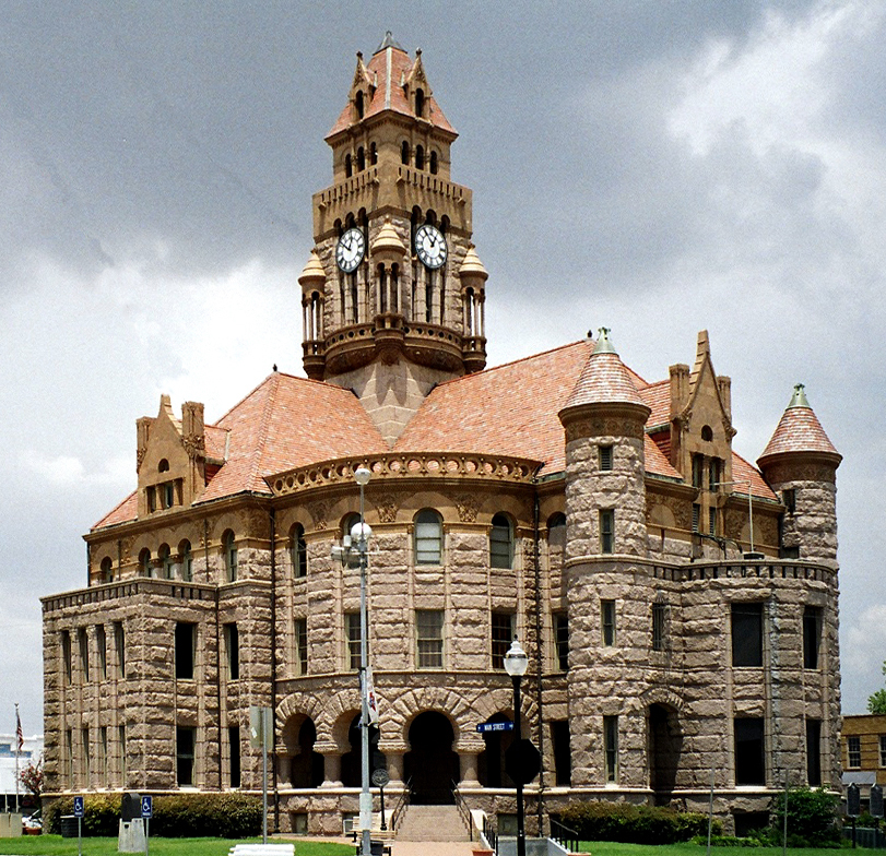 The Wise County, Texas courthouse located in Decatur, Texas, United States. James Riely Gordon designed the Richardsonian Romanesque style structure which has exterior walls made with Texas granite. The building was designated a Recorded Texas Historic Landmark in 1964 and listed on the National Register of Historic Places on December 12, 1976.